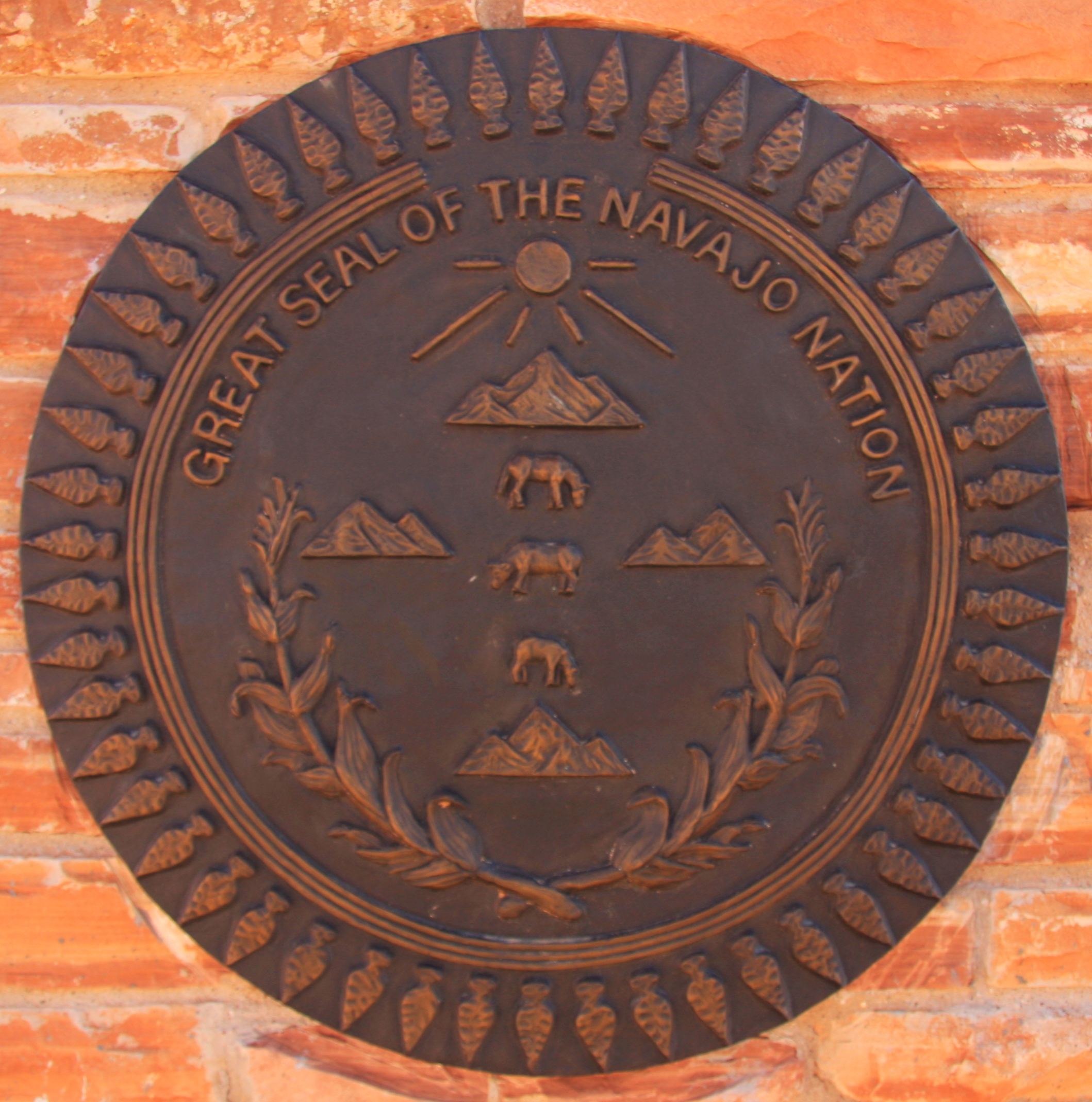 Great Seal of the Navaho Nation at tthe entrance gate